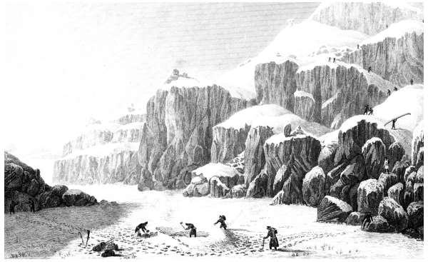 Preparing an Encampment on the Barren Grounds, Gathering Tripe de Roche, September 16. John Franklin's party crossing the Badlands to the east of the Coppermine River